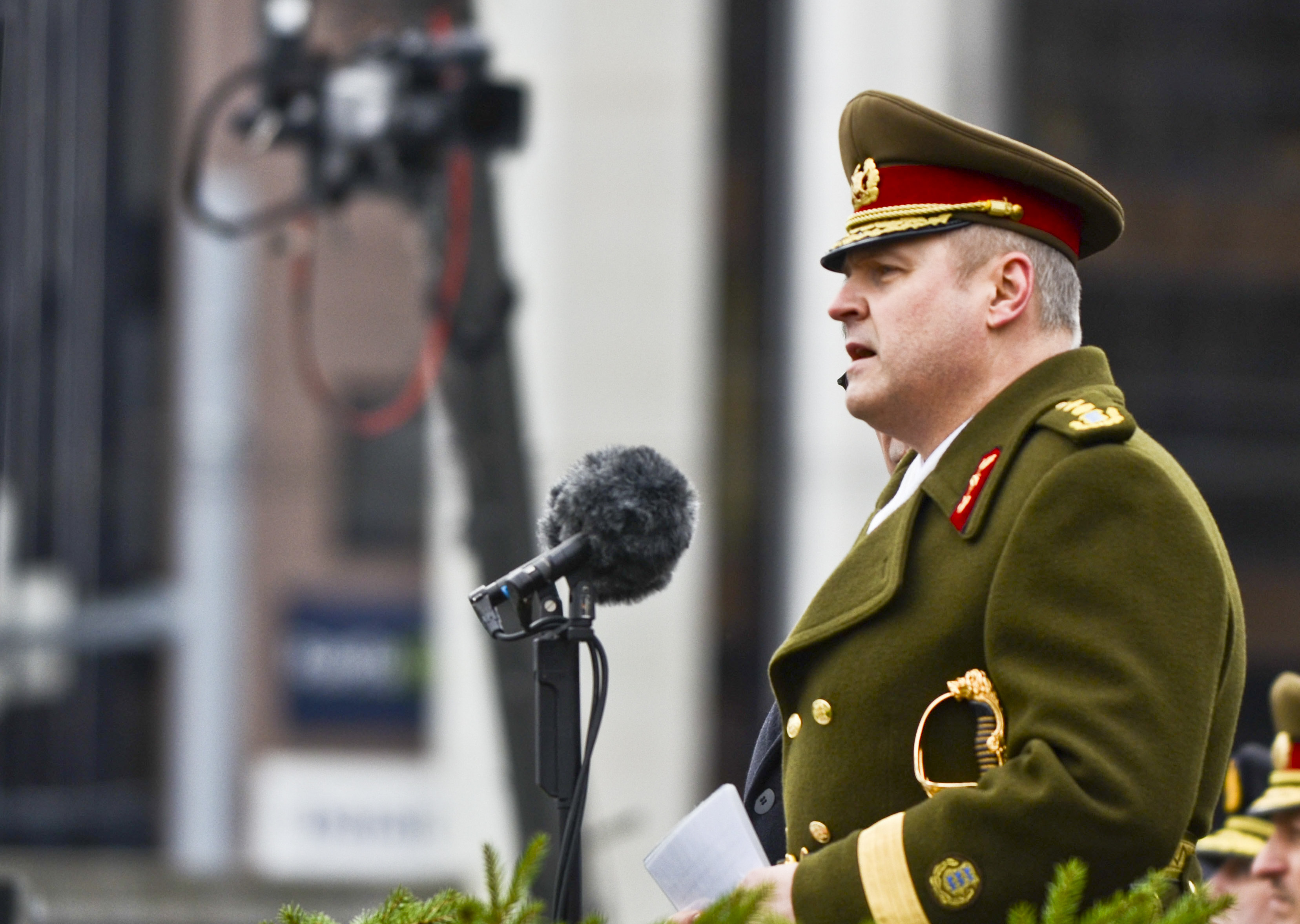 Estonian Lt. Gen. Riho Terras, the commander of the Defense Forces, welcomes distinguished guests, NATO ally Soldiers, and civilians to the celebration of Estonia's Independence Day during his speech, which was given at Freedom Square in Tallinn, Estonia, Feb. 24, 2016. (Photo by U.S. Army Staff Sgt. Steven M. Colvin/Released)